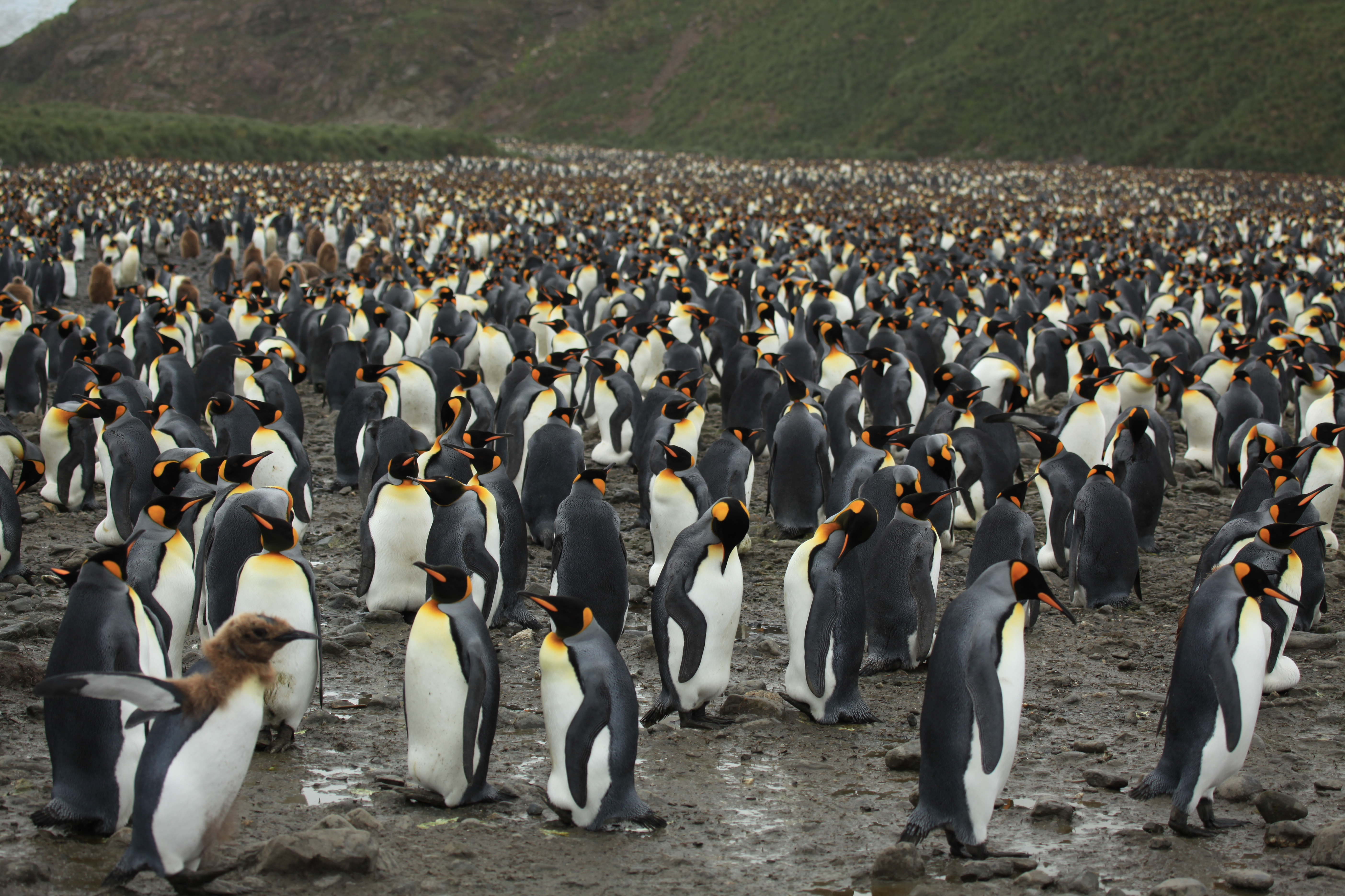 A colony of 200,000 King Penguins on the Salisbury Plain, South Georgia Islands